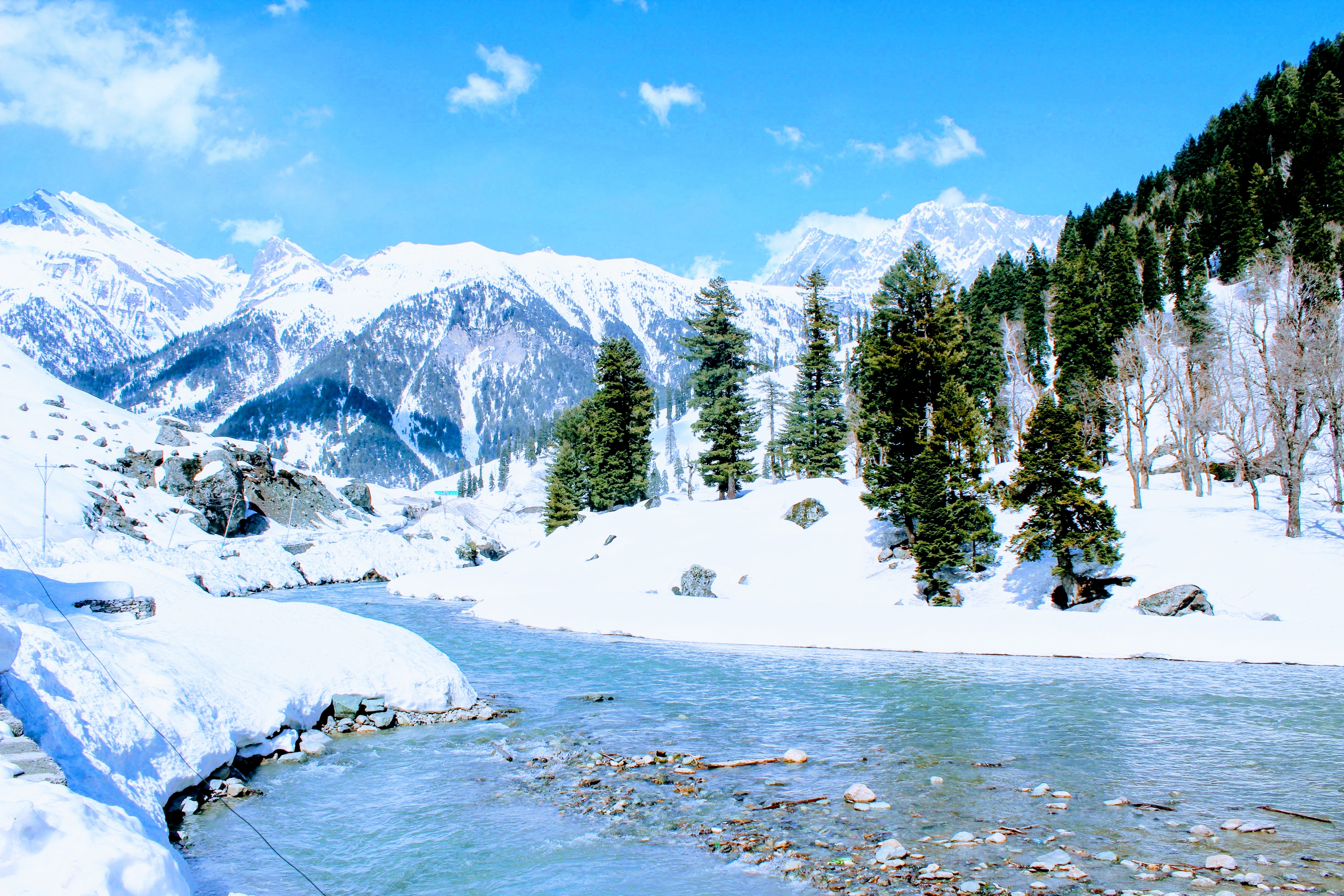 The snow covered sonamarg valley in April